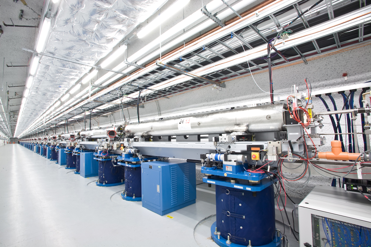 Downstream view into the LCLS undulator hall